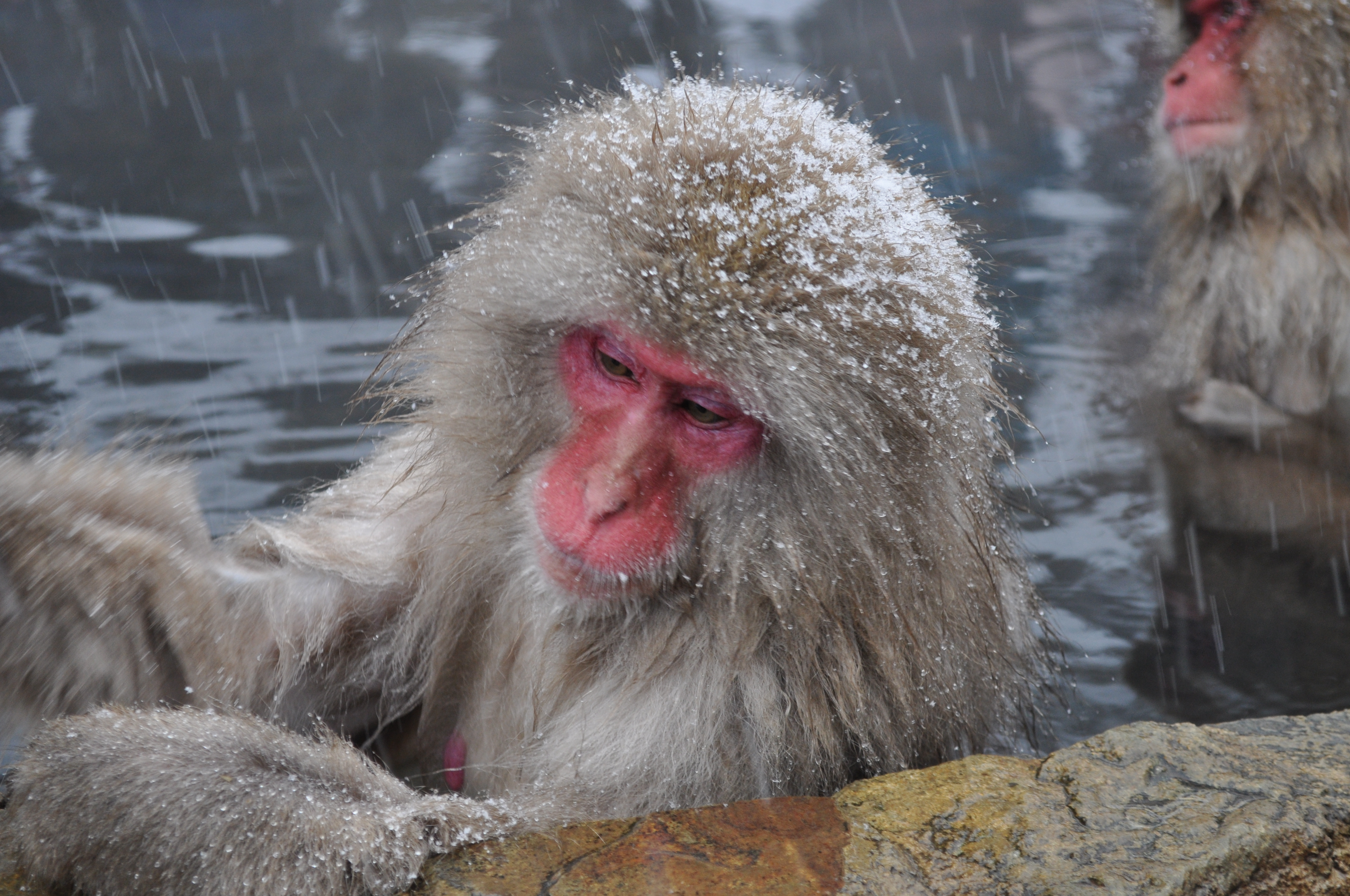 Japanese Macaque in hot springs near Nagano, Japan. Commonly referred to as the 'snow monkeys'.